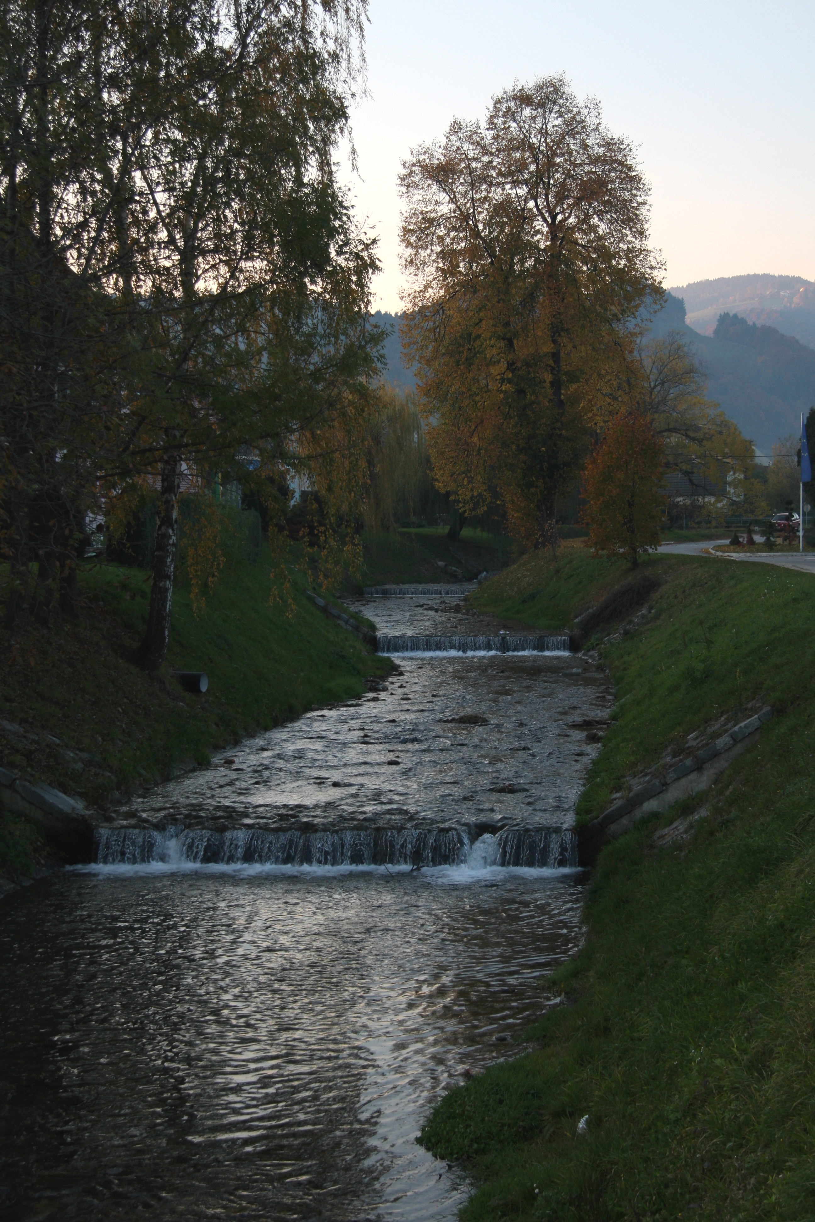 Dravinja river in Zreče, Slovenia.